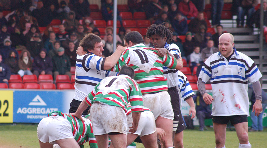 Scene from the friendl match between Bath and Leicester teams of 1996 that took place in 2007.